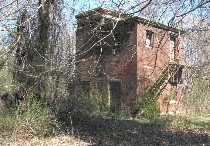 This photo, taken in 2010, looks easterly at the SW side of this fire control structure at Fort Andrews, which was completed in 1904. Located about 400 ft. SE of Battery McCook, it was the oldest fire control structure at the fort. The ceiling of the highest (observation) level was about 25 feet above the ground. It originally contained the fire command post for the entire fort and also served as an observation station for Battery McCook. By WW2, it served only as a Battery Command post for Bty McCook, observation having been taken over by the 1944 station on the Fort's higher western hill. During its heyday, all trees and brush around it were cleared away, offering it a terrific view of the surrounding harbor, but making it starkly visible to attackers.